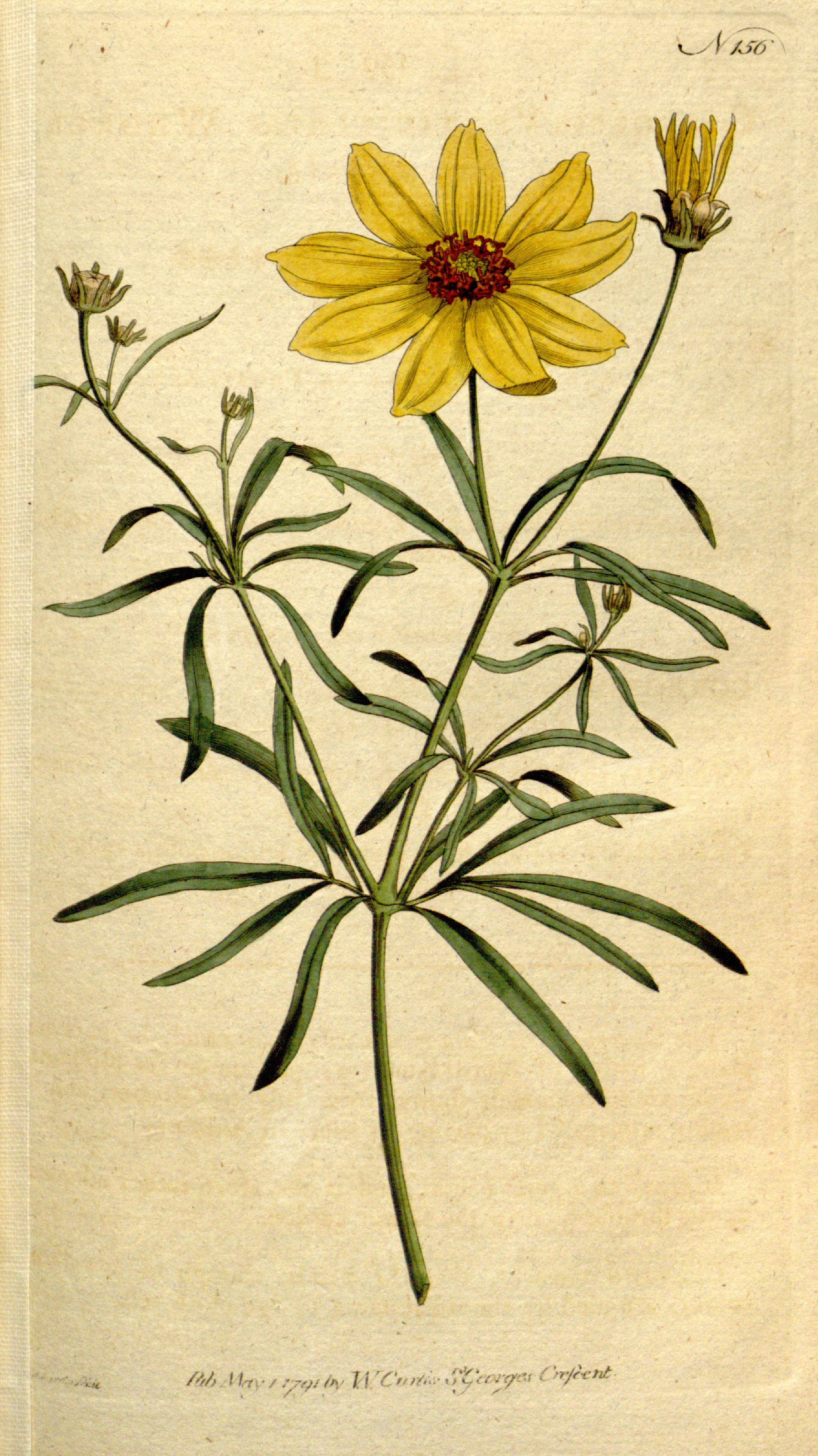 This is a plate from The Botanical Magazine, Volume 5.